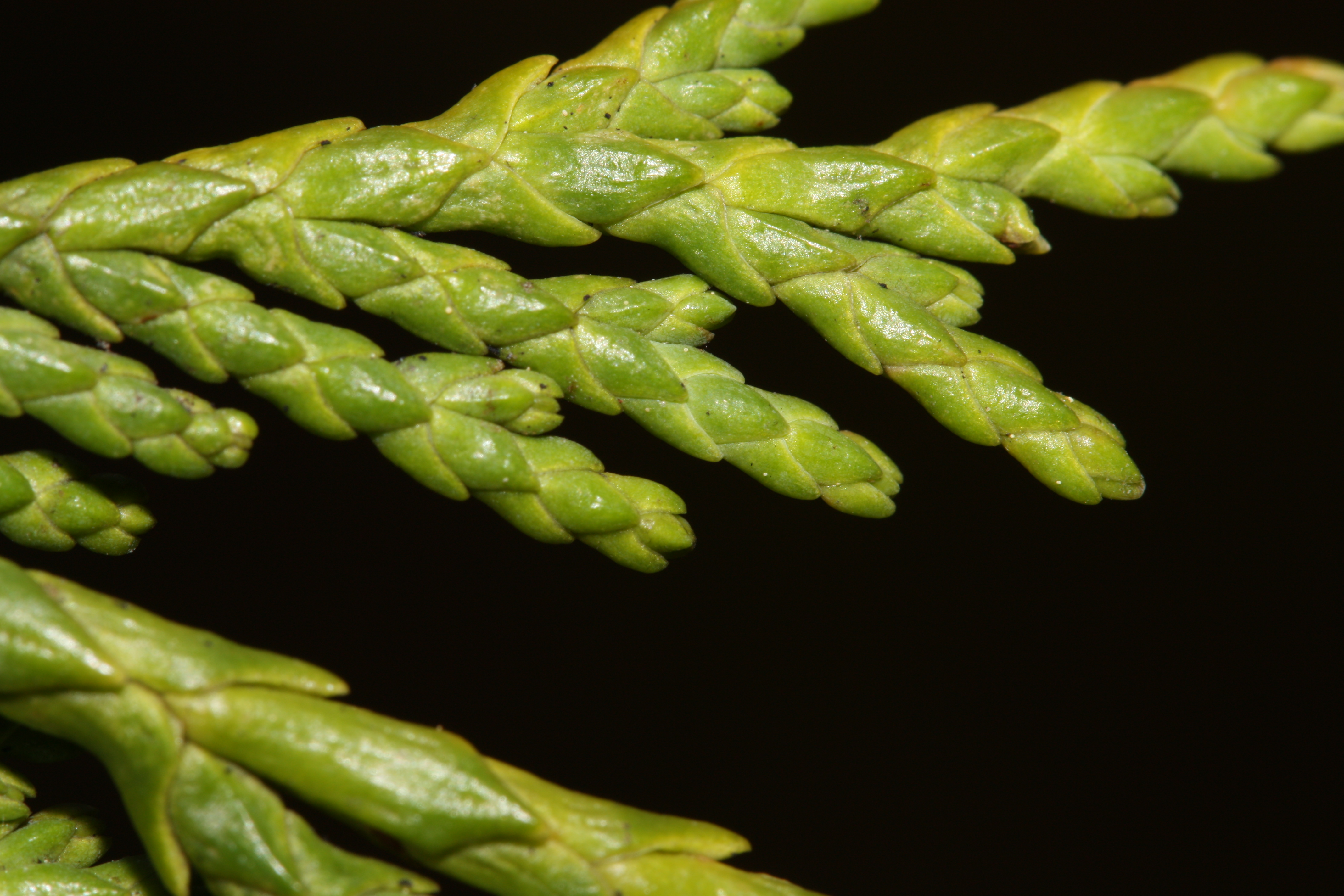 Nootka Cypress, Yellow Cypress, Alaska Cypress syn. Callitropsis nootkatensis (D. Don) Oerst.